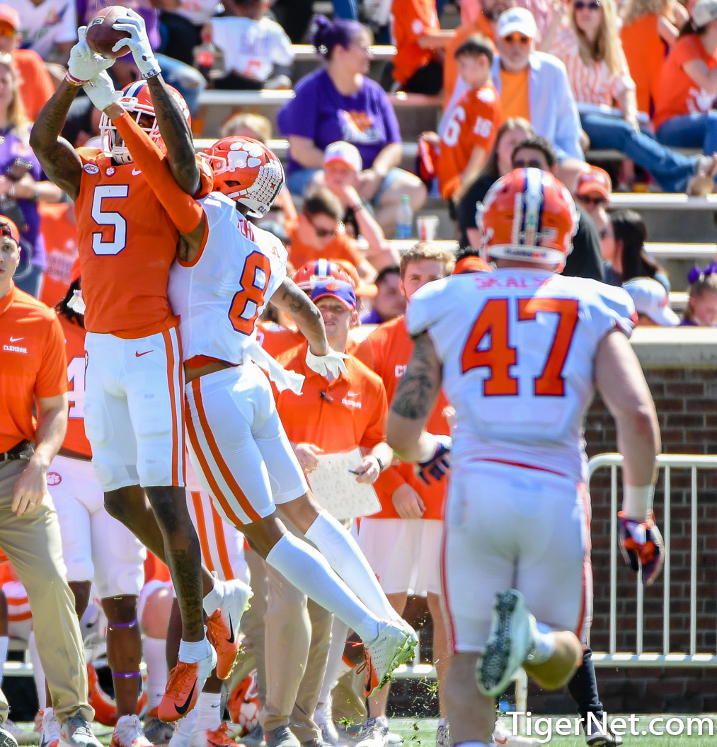 Tee Higgins with the catch